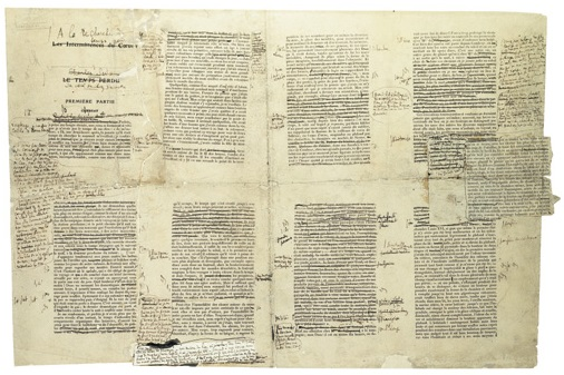 First galley proof of A la recherche du temps perdu: Du côté de chez Swann with handwritten revision notes by Marcel Proust (1871 - 1922). Auctioned by Christie's in July 2000 for £663,750 — a world record for a French literary manuscript.